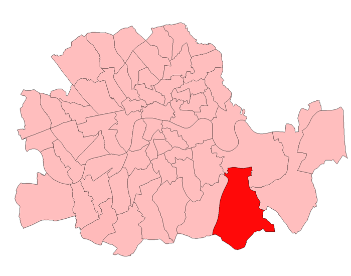 A map of Lewisham East constituency within the London County Council area, as it existed from 1918 to 1949.